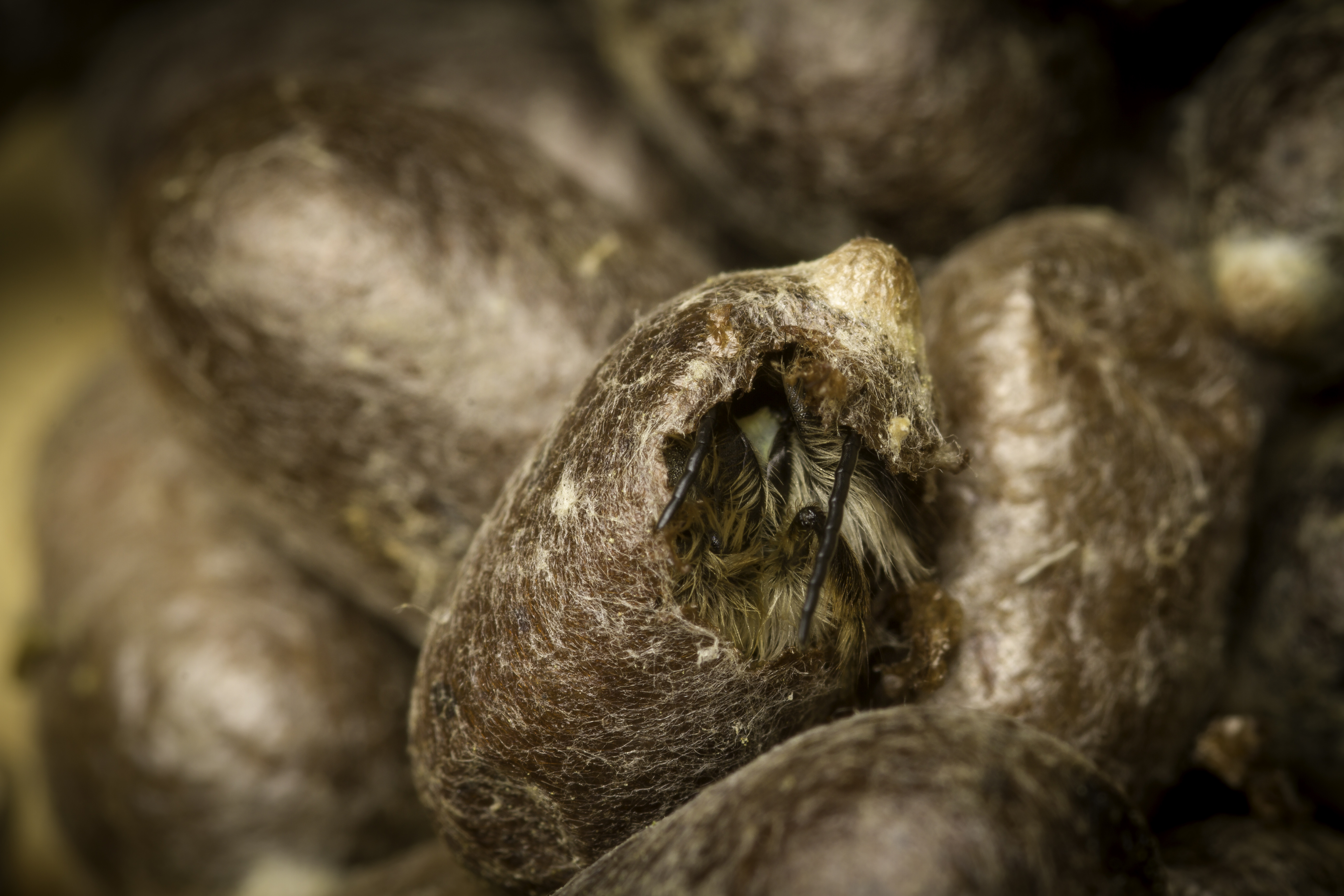 Macro of a red mason bee hatching from its cocoon, several other cocoons visible.